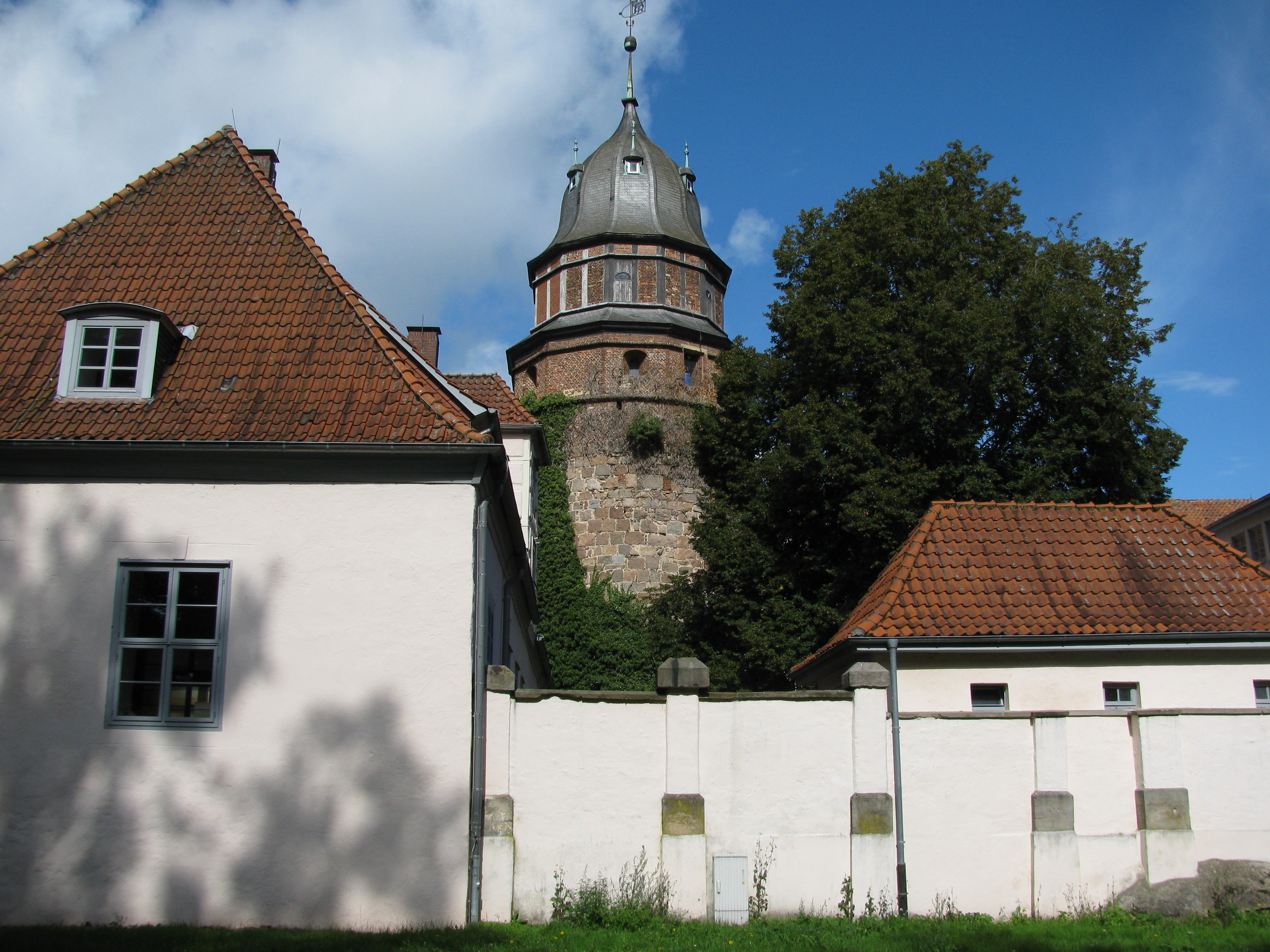 Castle Diepholz in Lower Saxony, Germany